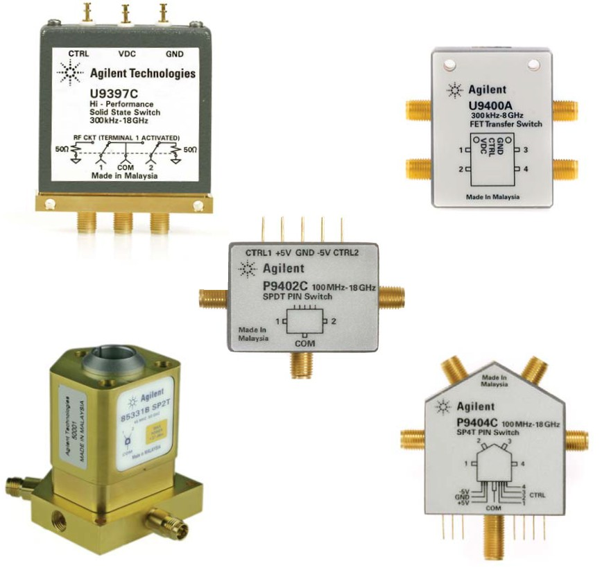 Agilent Solid State Switch Family